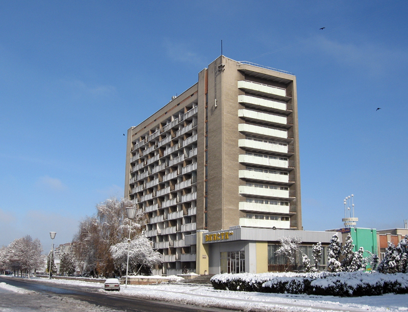 Hotel Vlasta in Lviv